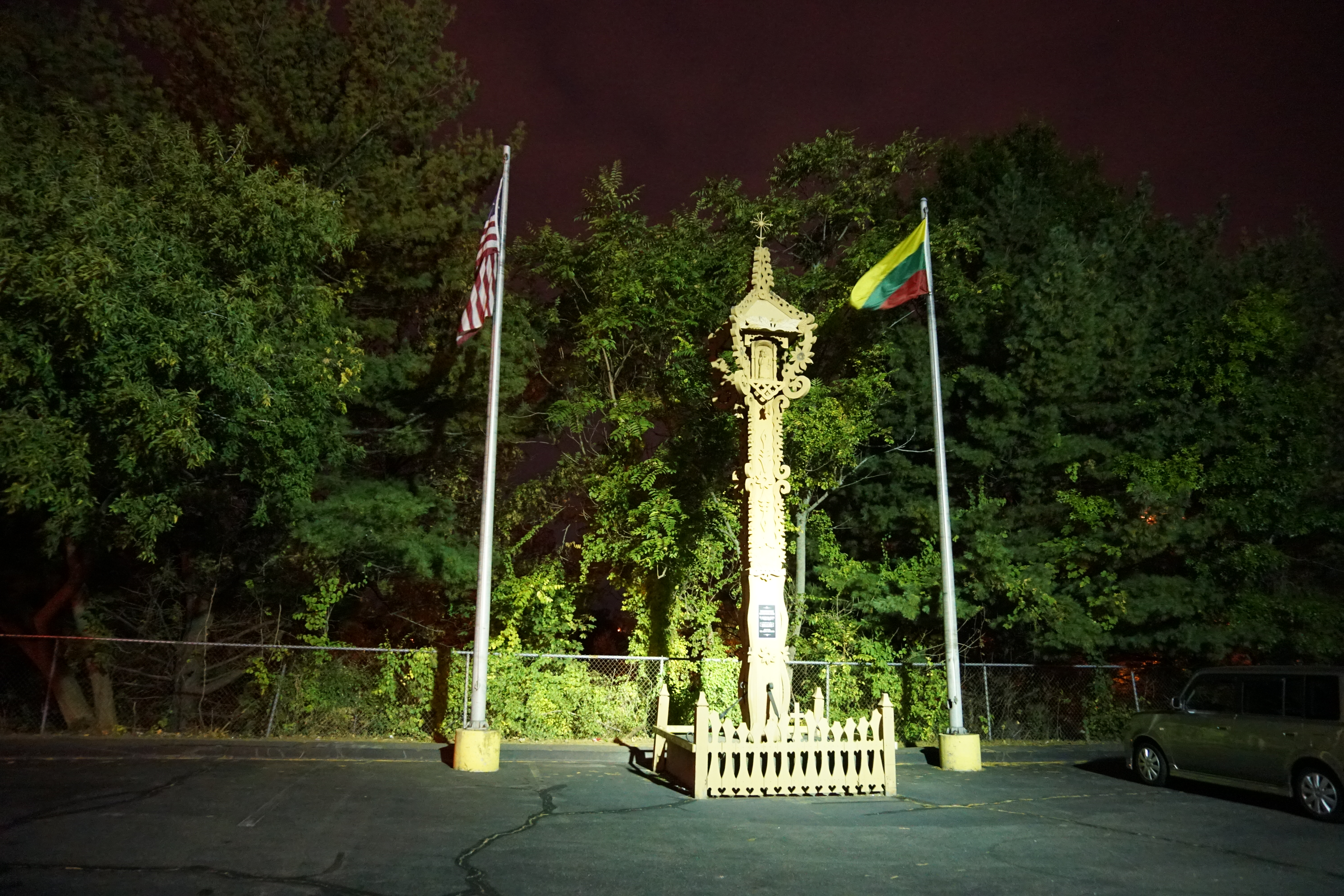 Lithuanian monument in New Britain